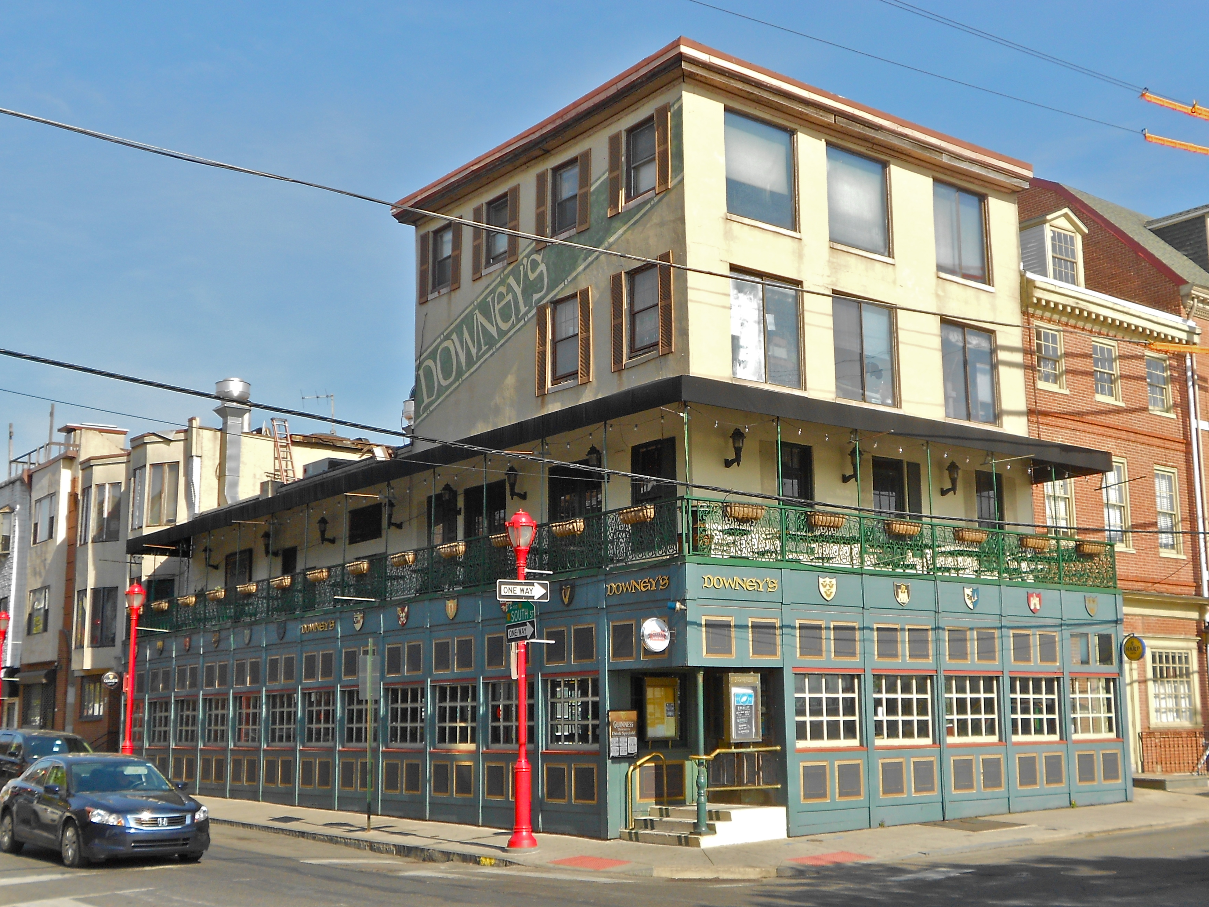 The northwest corner of South Street (to the left) and S. Front Street (to the right), Philadelphia. In 1763 during the Mason-Dixon survey, the Plumstead Huddle house was the southernmost point in Philadelphia and the first point in determining the Mason-Dixon line. That house is long gone, but it was within a half block of this point